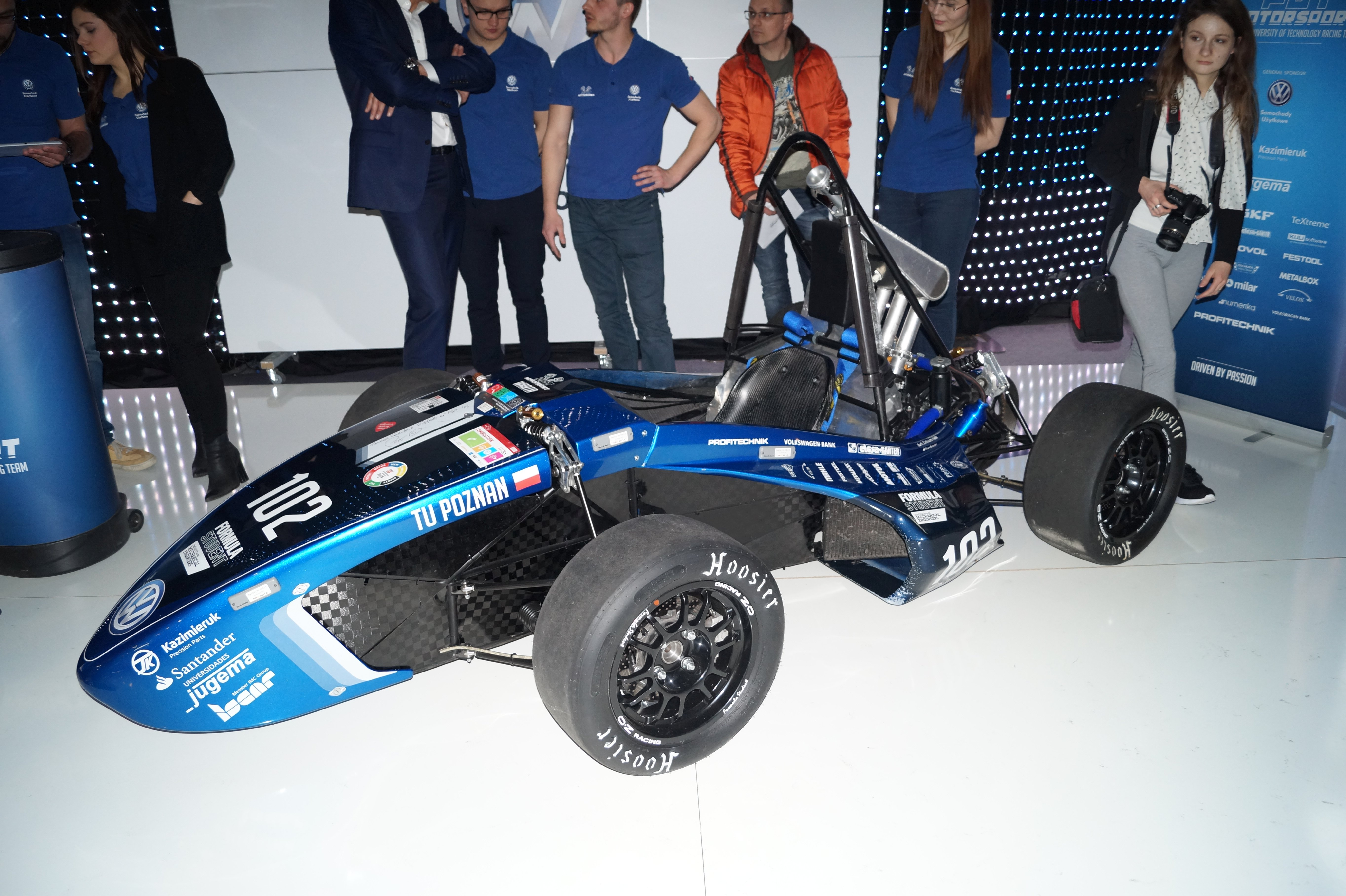 The making of this document was supported by Wikimedia Polska Association, within Wikigrant no. WG 2016-10. English | polski | +/− Formula Student na Motor Show Poznań 2016